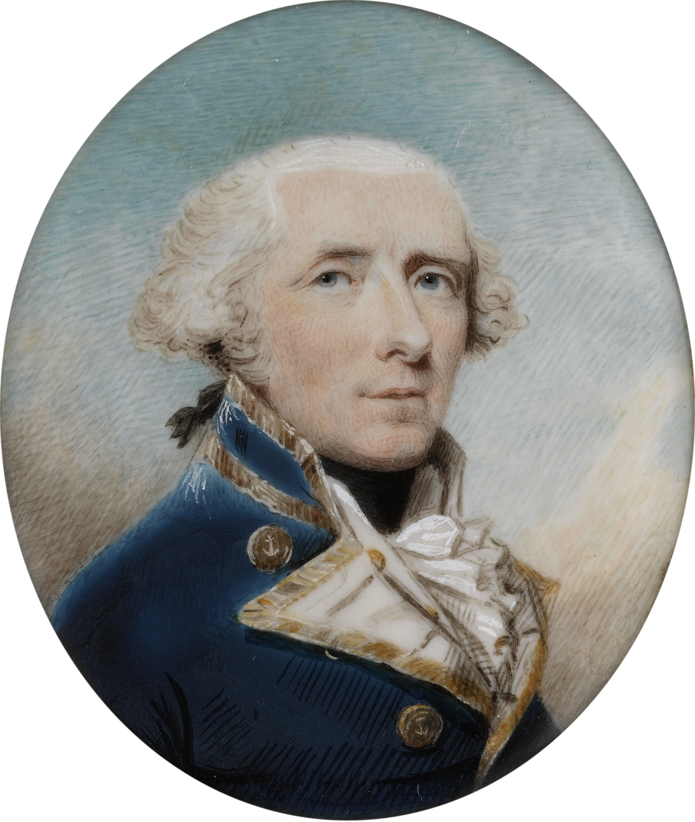 Admiral Skeffington Lutwidge (1737-1814) watercolour on ivory 6.5 cm high